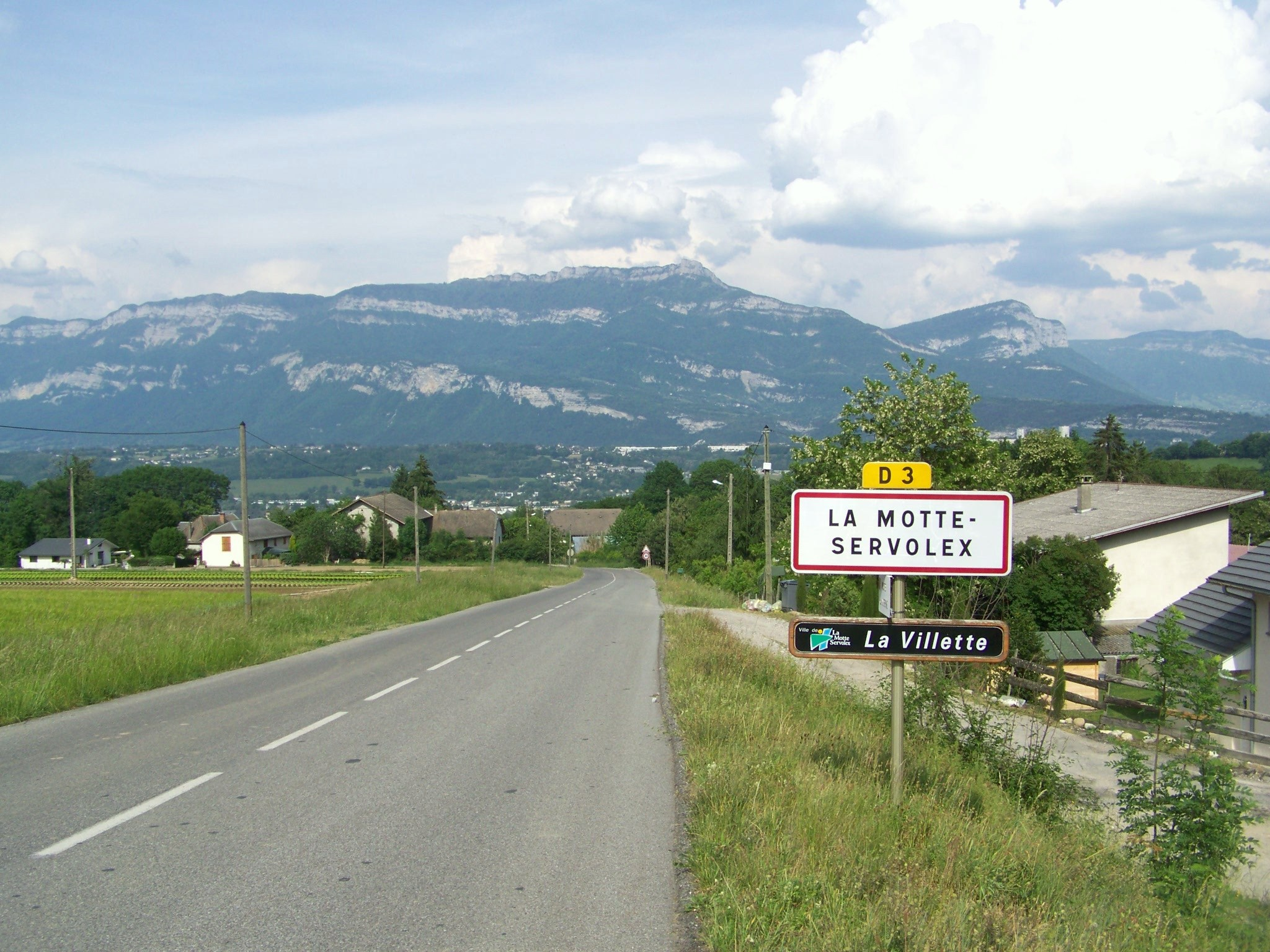 Sign welcoming visitors to the city of la Motte-Servolex close to Chambéry in Savoie, France.